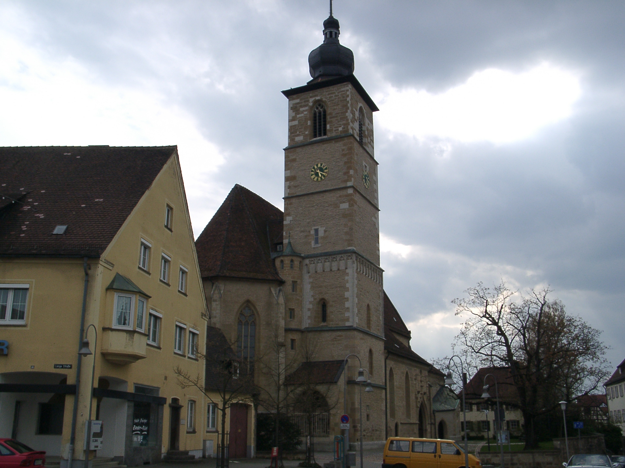 St John's church in Crailsheim